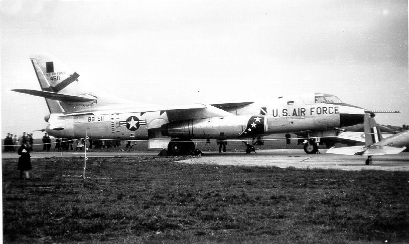 30th Tactical Reconnaissance Squadron - Douglas RB-66B-DL Destroyer - 54-511